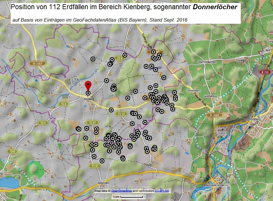 Position of 112 sinkholes near Kienberg (Bavaria/Germany), so called Donnerlöcher, based on information of GeoFachdatenAtlas (BIS-Bayern), as of 09/2016